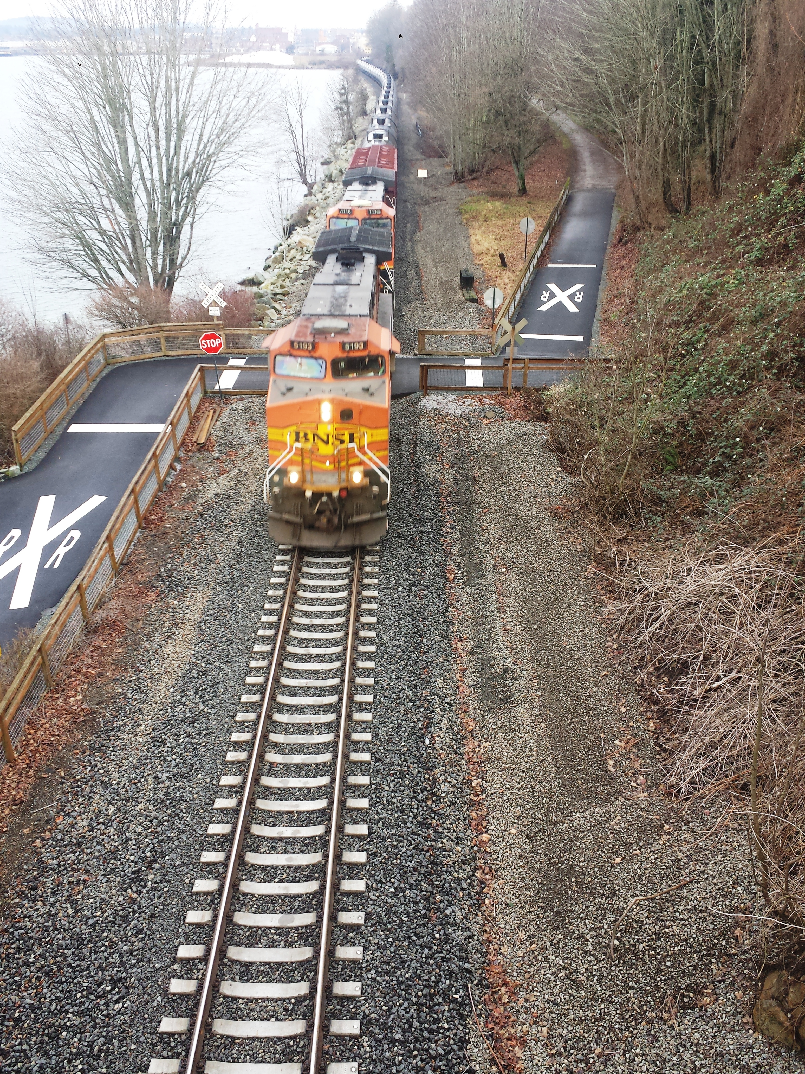 Burlington Northern Santa Fe (BNSF) train carrying crude oil from North Dakota's Bakken oil field. The lead engine is BNSF 5193 and the second engine is BNSF 1116, which are both General Electric GE C44-9W 4,400 hp (3,281 kW) Diesel-electric locomotives. IMG_20150103_145111